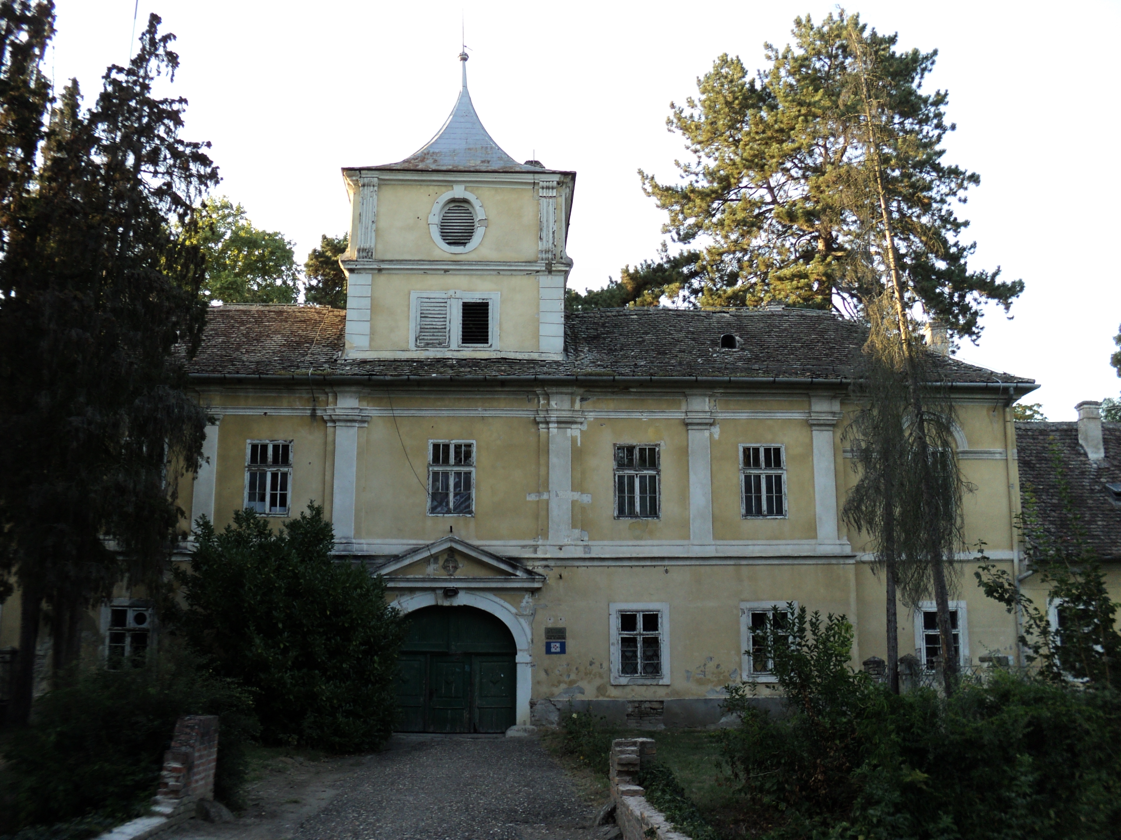 Savoy Castle in Bilje.